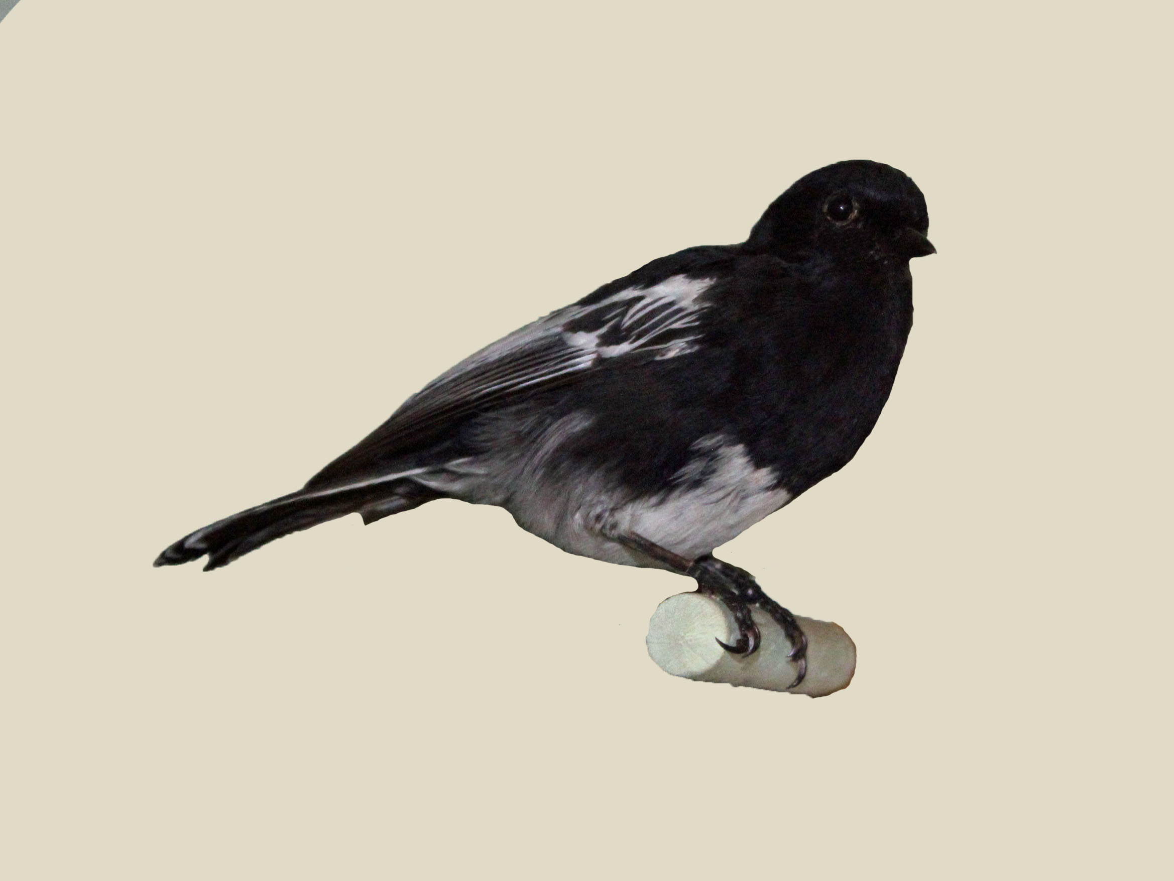 White-bellied Tit (Melaniparus albiventris). Photograph of a specimen at Nairobi National Museum in Nairobi, Kenya.